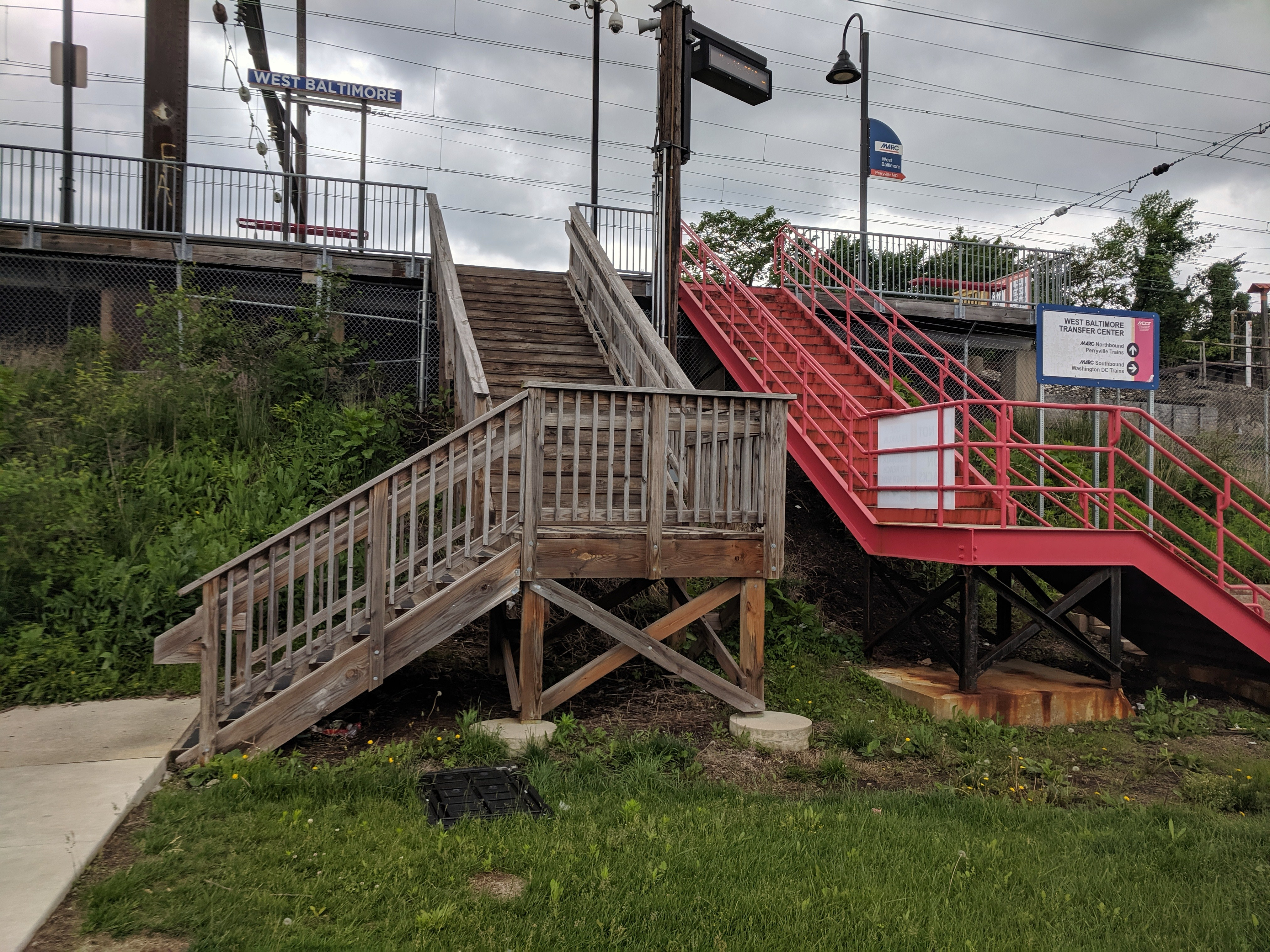 West Baltimore station in the Midtown-Edmondson/Lexington/Western area of Baltimore, May 2019.